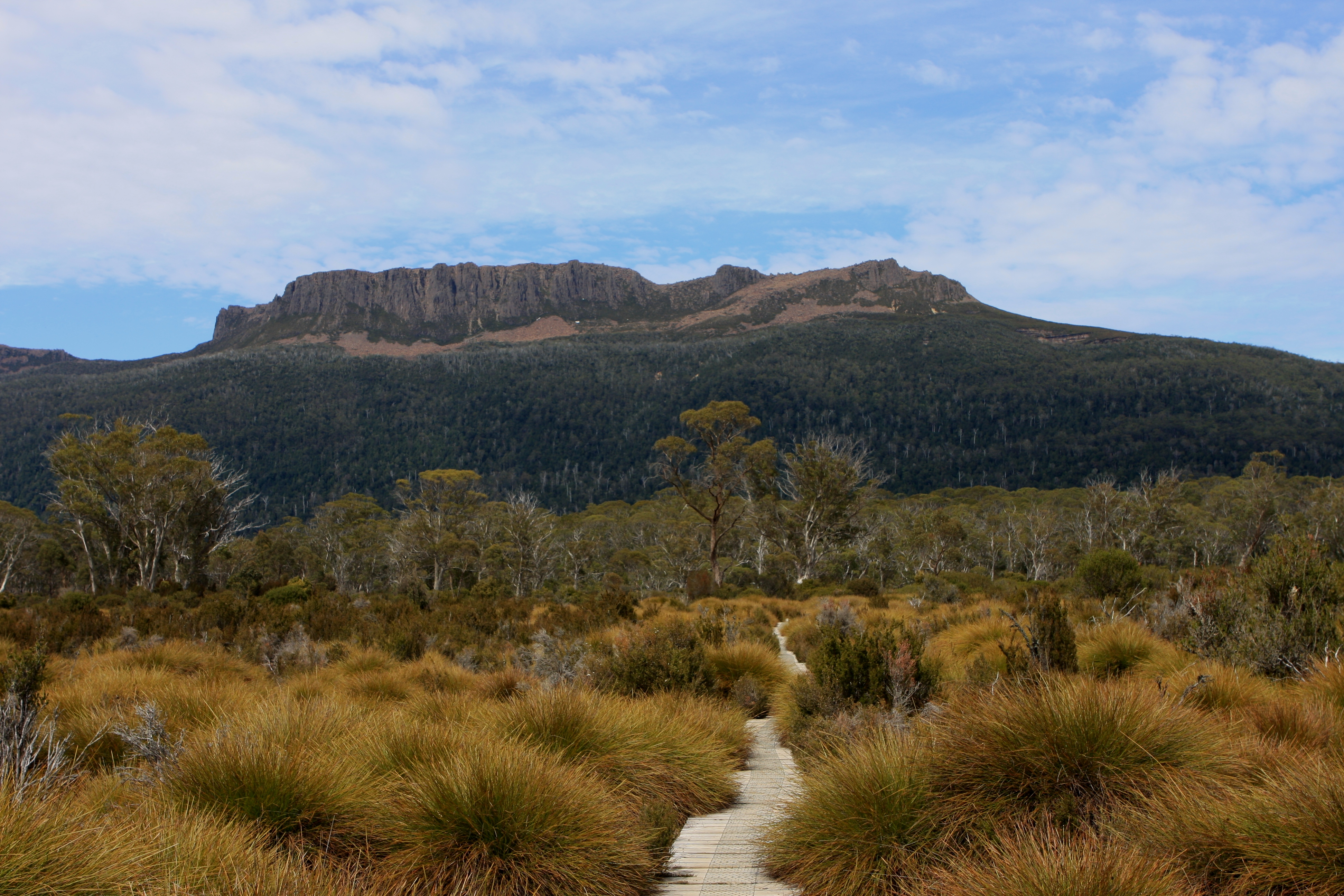 We are hiking parallel to the Narcissus River, in an area called Bowling Green This grass is Gymnoschoenus sphaerocephalus, commonly called buttongrass sphaerocephalus Notesheet.pdf Day 6 of Overland Track Australia oz2009 559